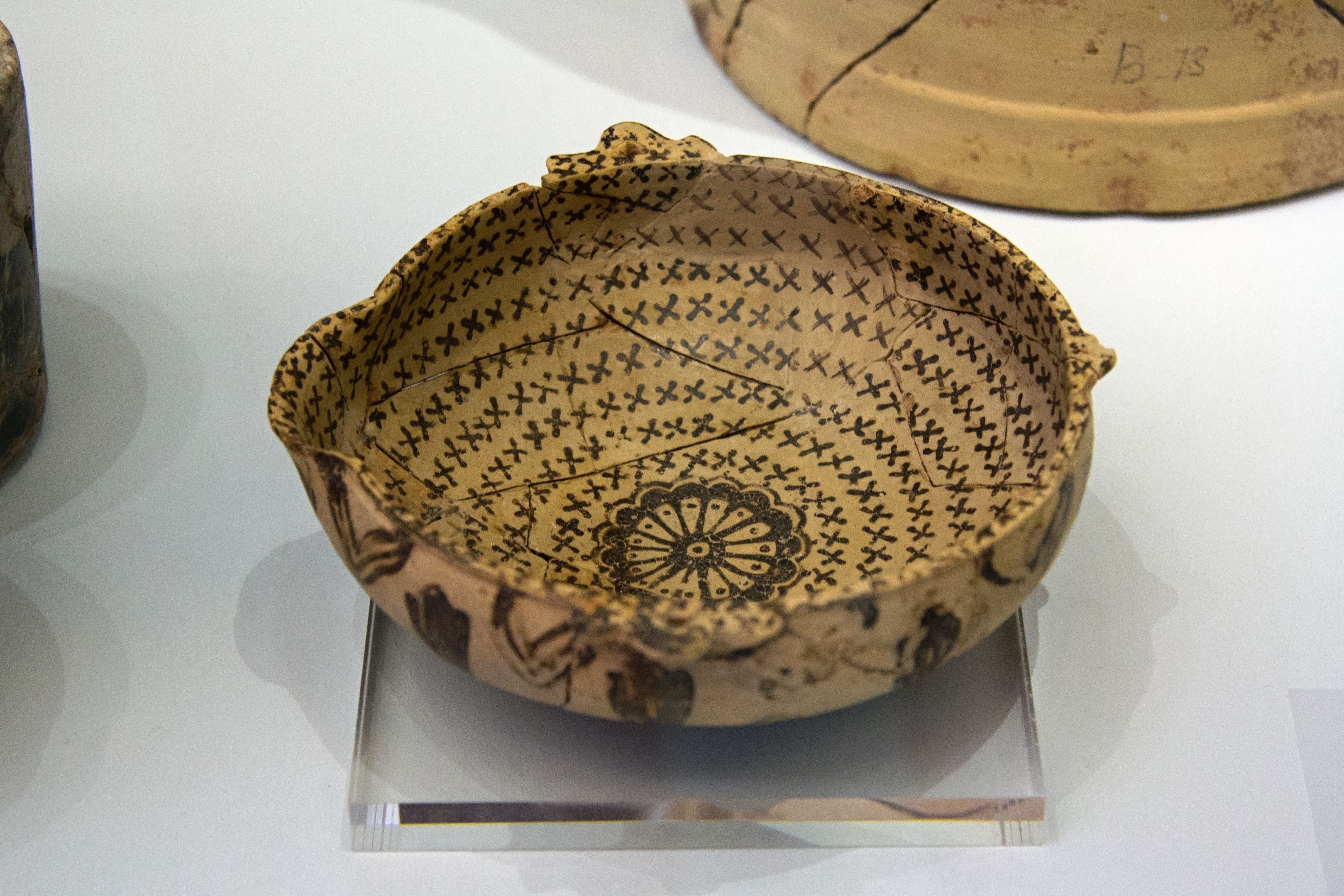 Pottery from Palaikastro, Crete, 1500-1450 BC. Archaeological Museum of Heraklion, case 48.